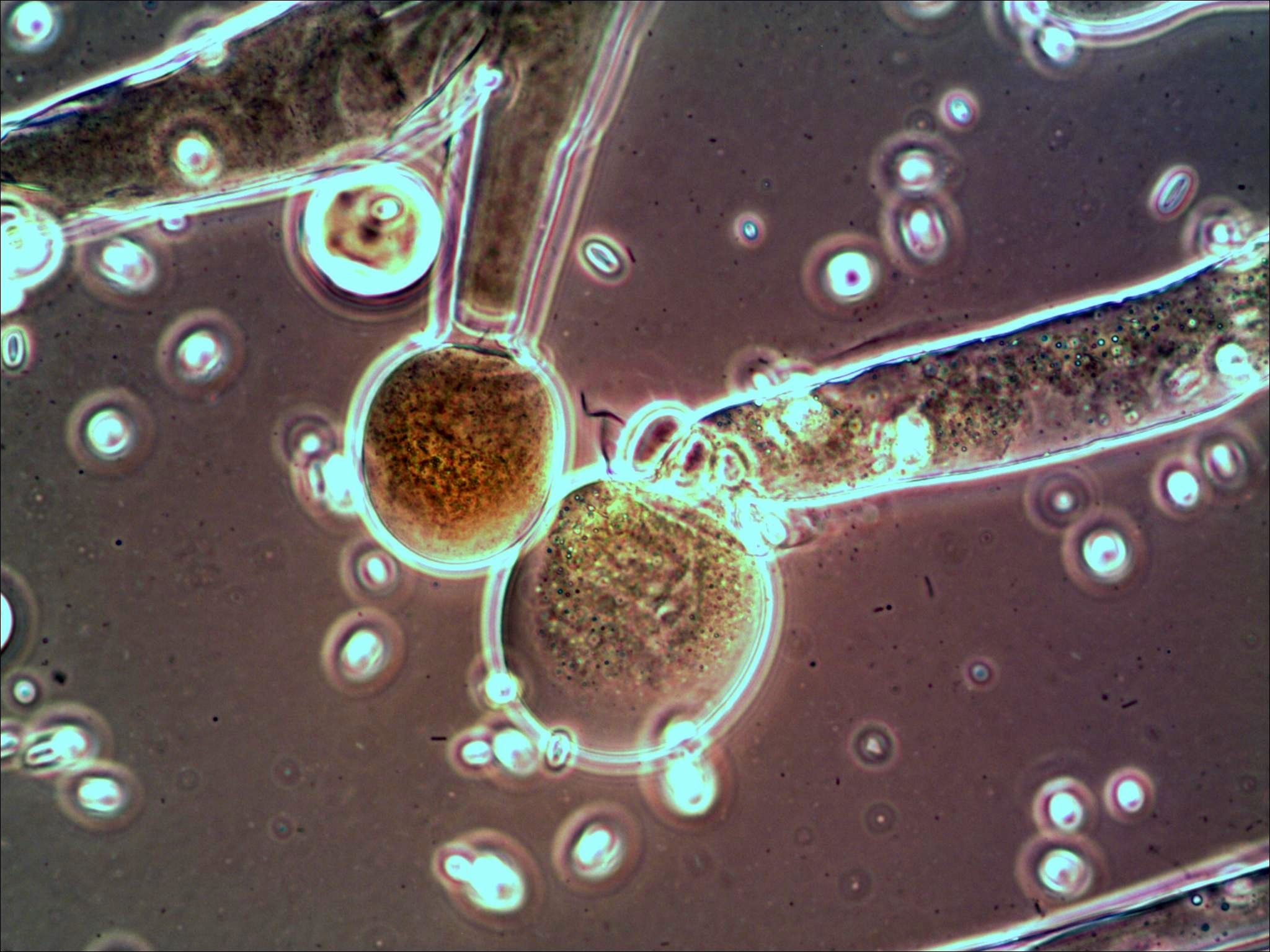 The image shows the columellas of 2 sporangia